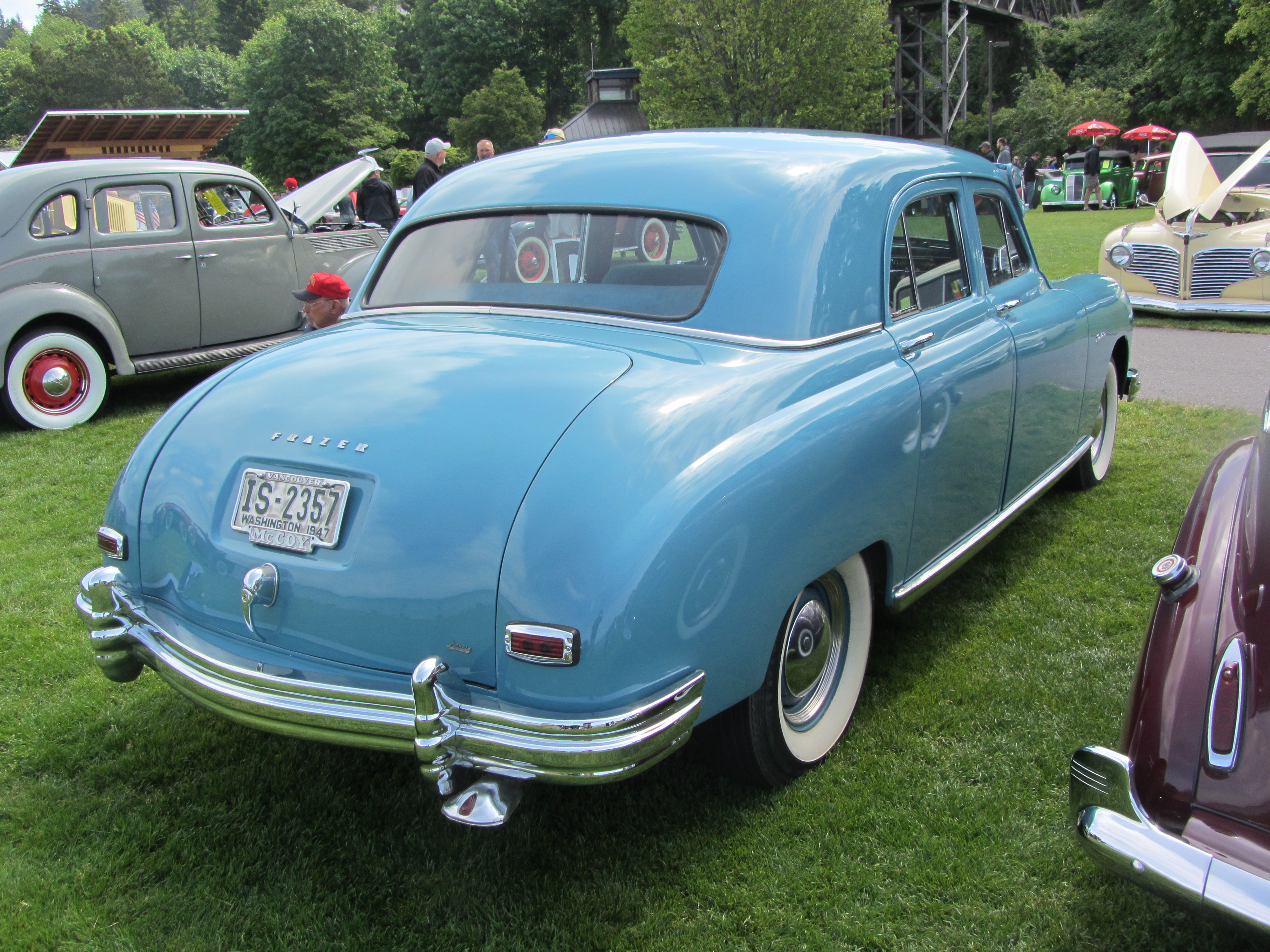 1947 Frazer Manhattan Boulevard Park car show, sponsored by the Model A Restorers Club. Bellingham